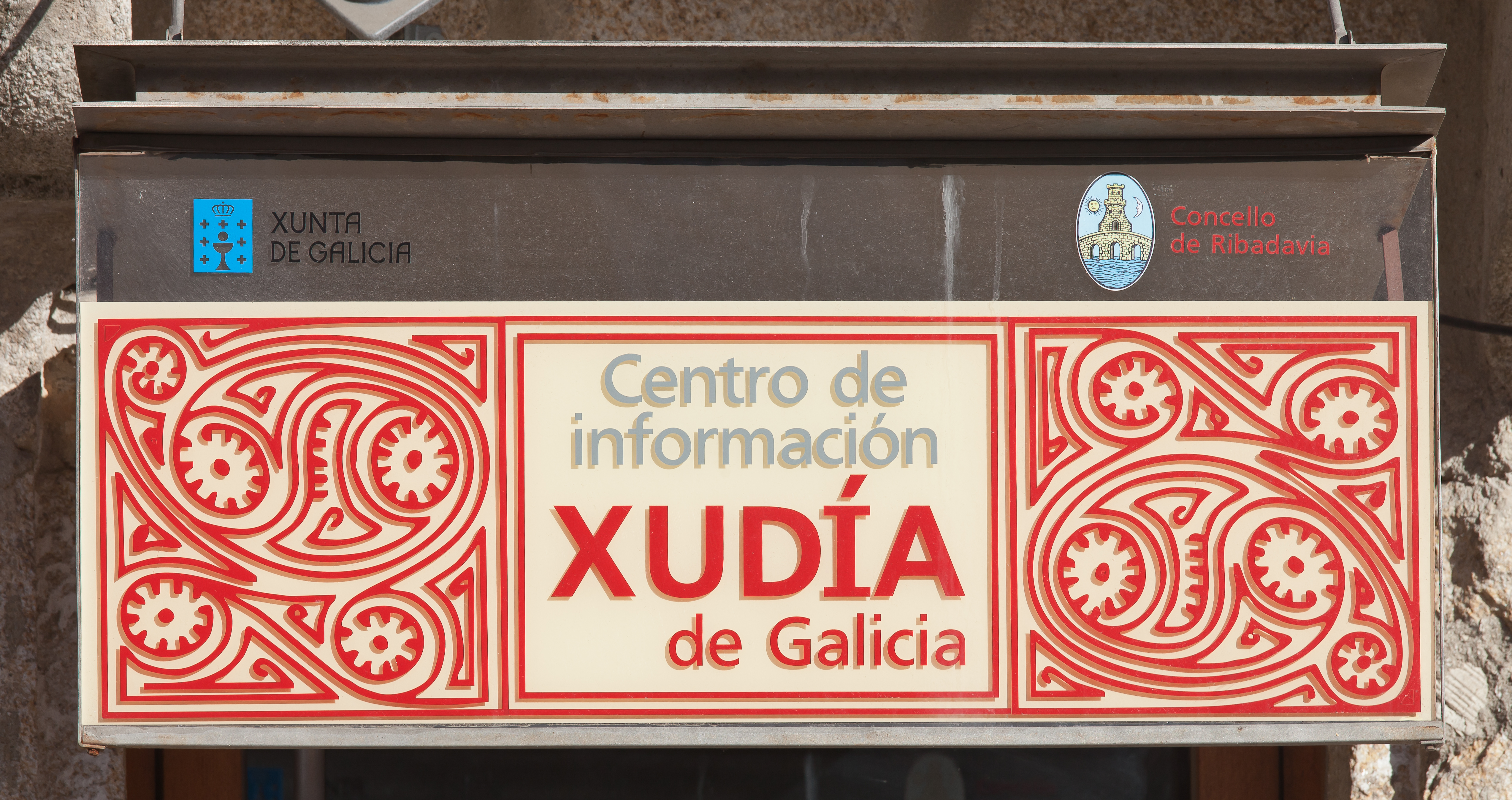 Jewish information center. Ribadavia. Galicia